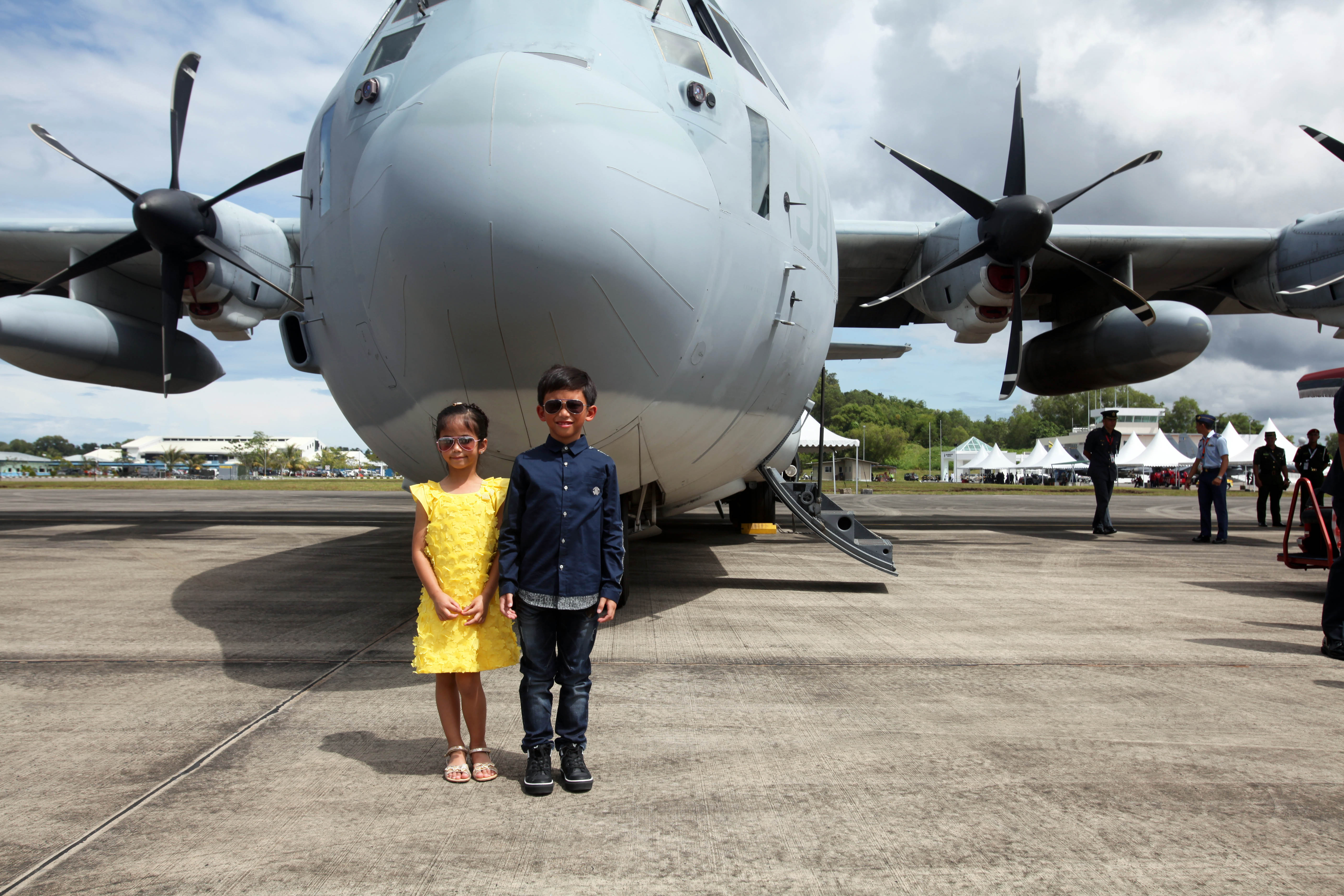 Brunei Princess Ameerah Wardatul Bolkiah and Prince ‘Abdul Wakeelat pose for a photo in front of a U.S. Marine KC-130J Super Hercules Dec. 4 at Rimba Air Base, Brunei, during the 4th Biennial Brunei Darussalam International Defense Exhibition and Conference. The five-day event includes displays and demonstrations of military equipment, with the theme of bridging the capability gap. BRIDEX 13 is an opportunity for communication and cooperation with regional partners and allies, builds strong multilateral relationships and enhances preparedness for disasters and other contingency operations. U.S. participation in BRIDEX 13 demonstrates cooperative engagement with Brunei and continued commitment to regional security and stability in the Asia-Pacific region. The KC-130J is assigned to Marine Aerial Refueler Squadron 152, Marine Aircraft Group 36, 1st Marine Air Wing, III Marine Expeditionary Force.